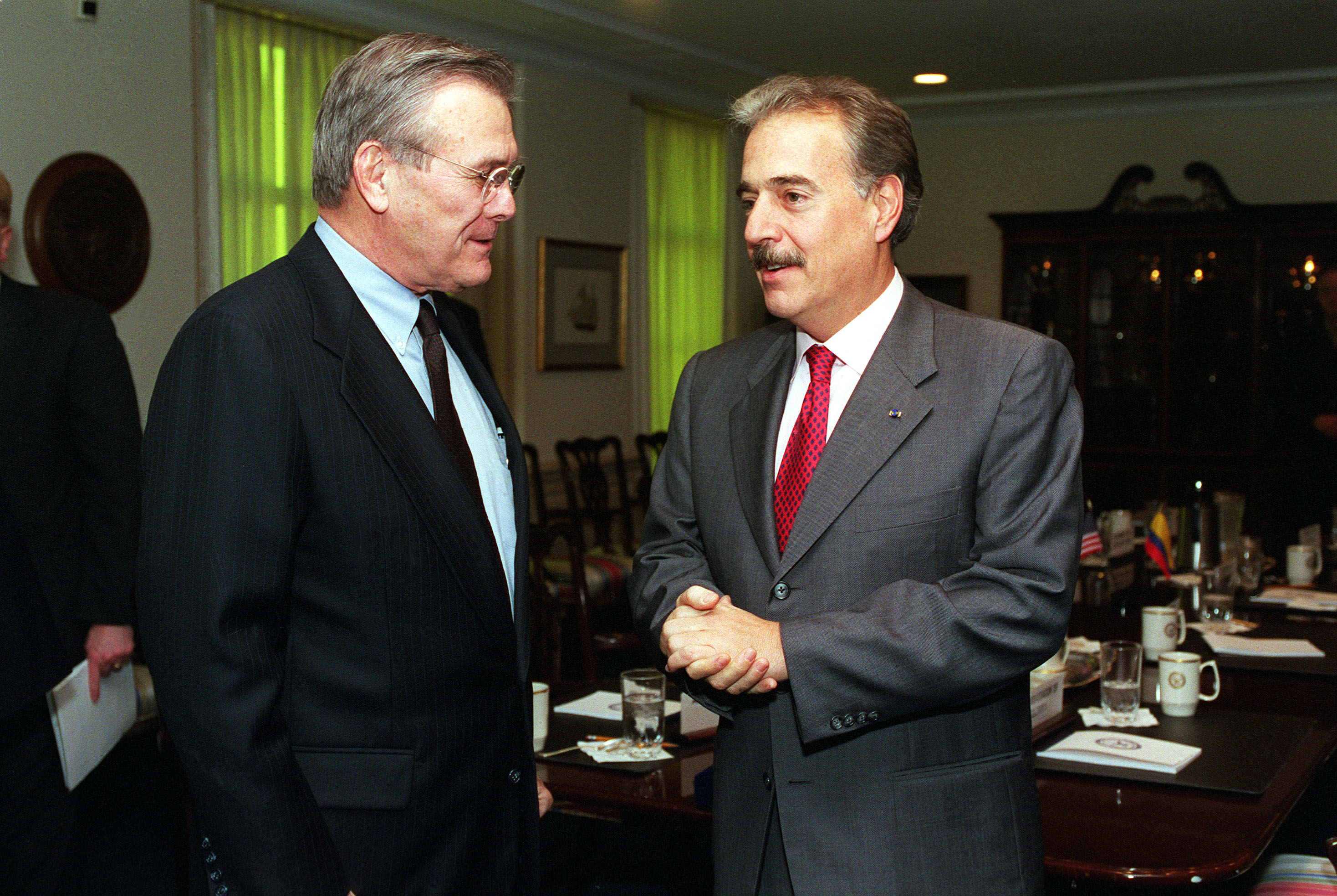 Secretary of Defense Donald H. Rumsfeld (left) talks with Colombian President Andres Pastrana (right) at the conclusion of their Pentagon meeting on Feb. 26, 2001. The two men met to discuss a range of regional issues of interest to both nations. DoD photo by R. D. Ward. (Released)